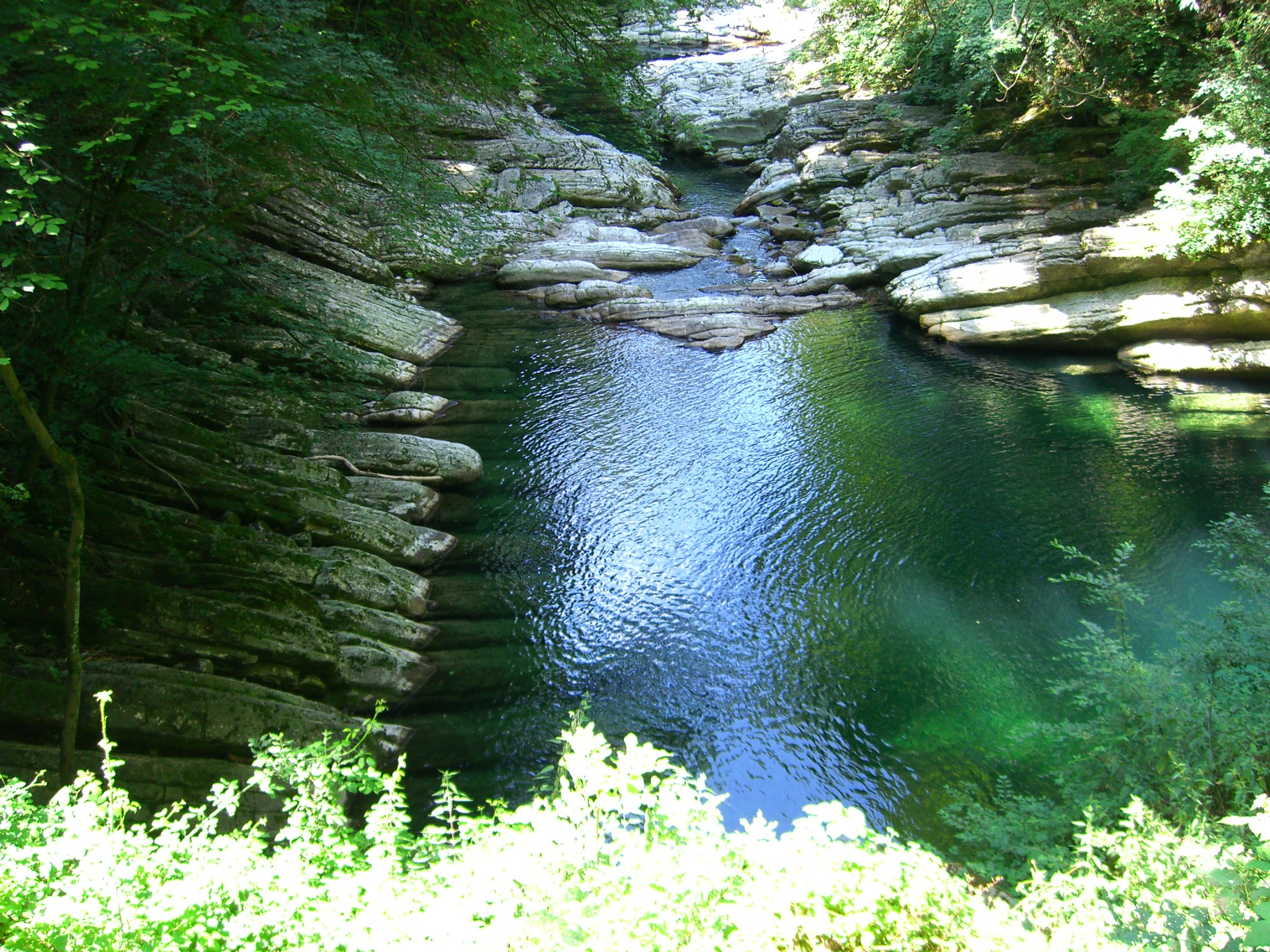 Breggia river, Ticino, Switzerland